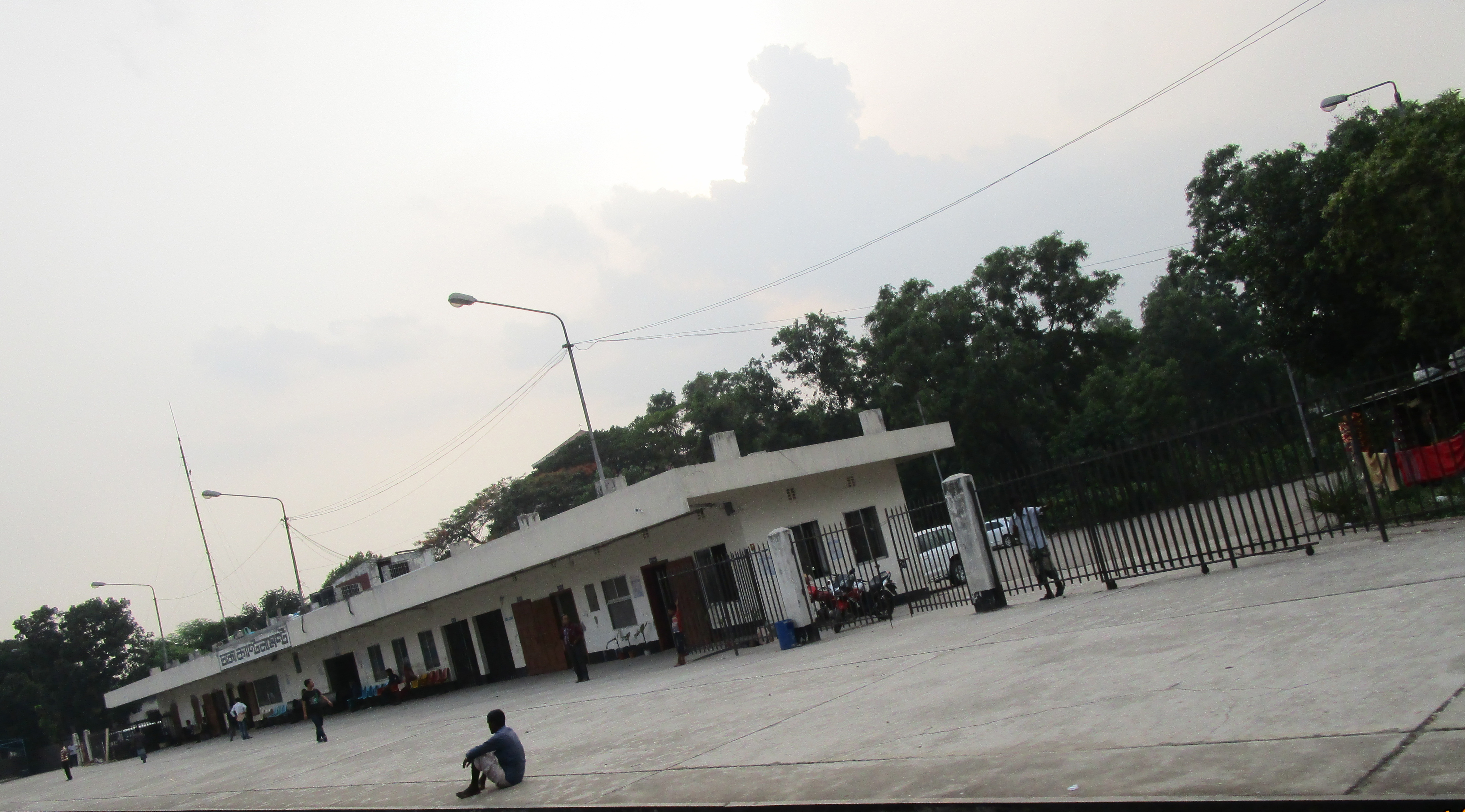 Dhaka Cantonment Railway Station